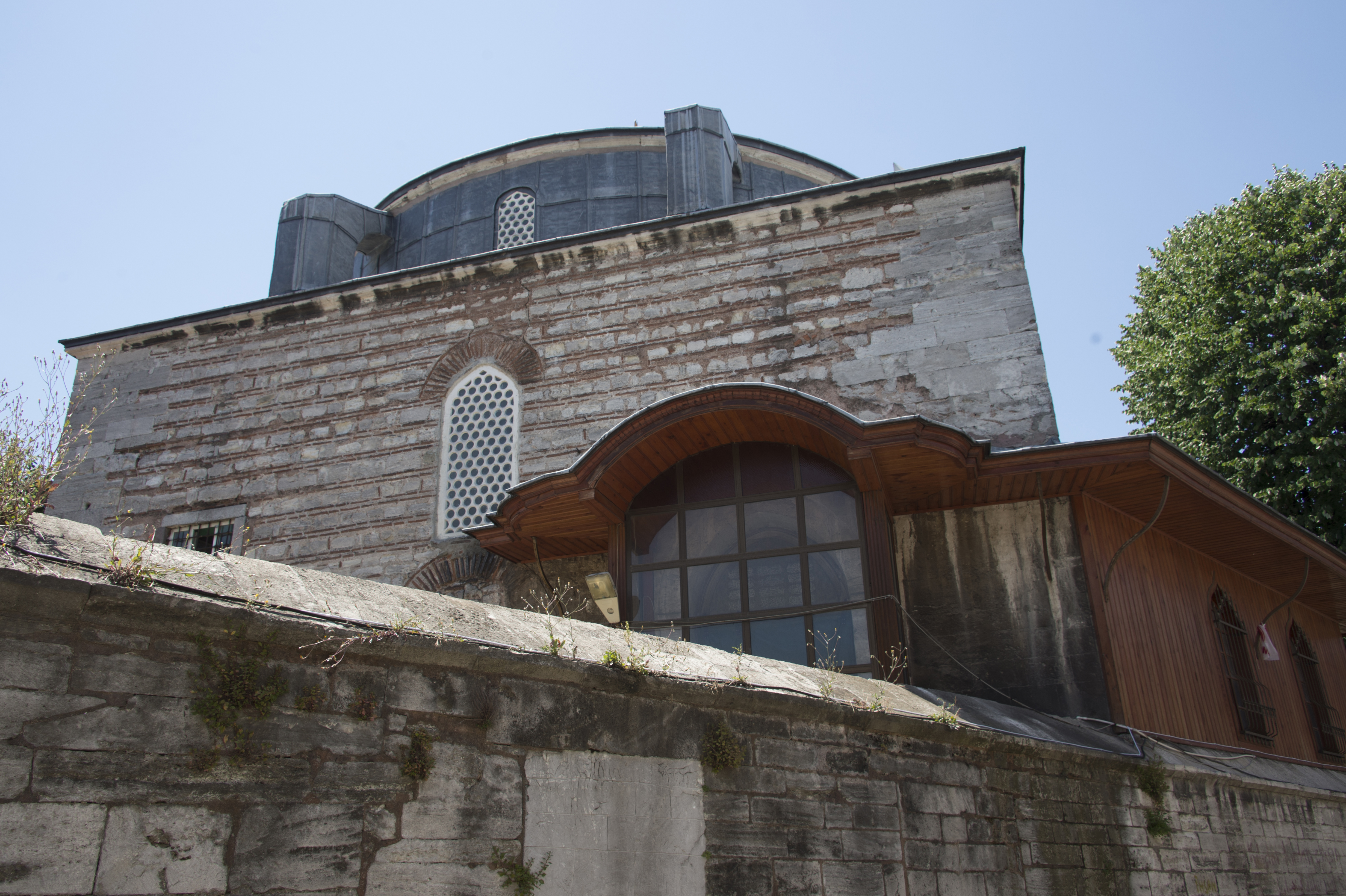 The street that runs along the entrance court to the mosque divides the complex, other buildings are across is.